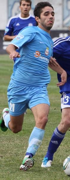 Matija Dvorneković with FC Nizhny Novgorod.